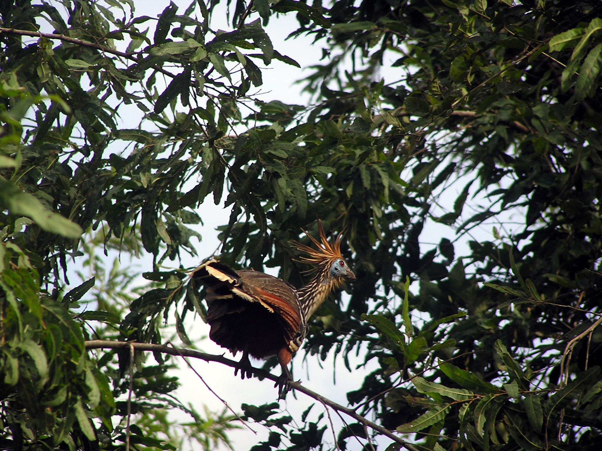 Hoatzin, Beni River, Bolivia.